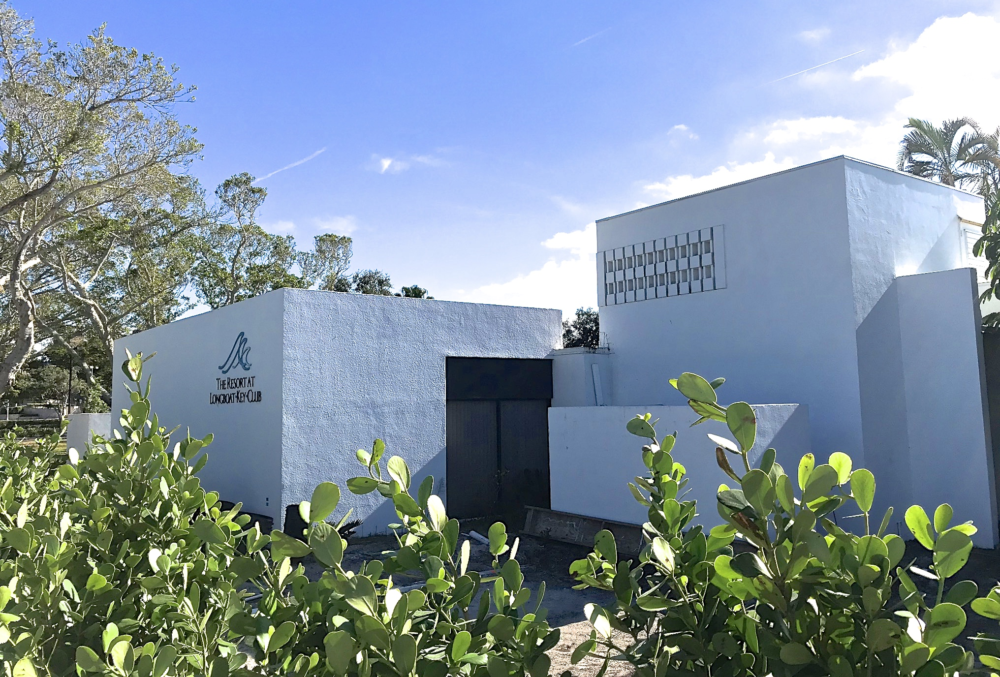 Arvida Sales Office (Tim Seibert, Architect, FAIA)